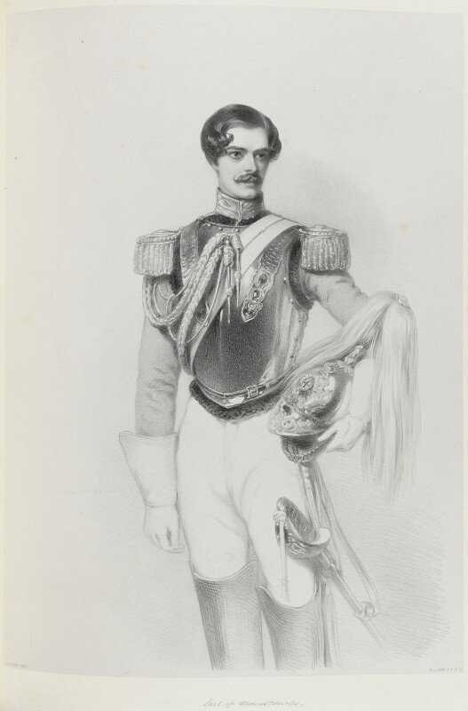 Lord Cony